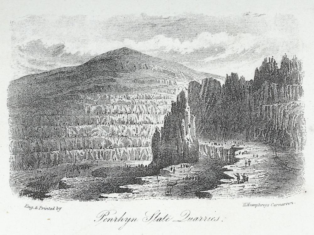 A view of Penrhyn Quarry, showing hundreds of men working on the various levels.